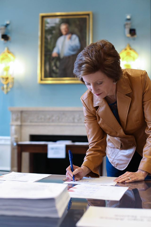 Hartzler signing final version of 2018 Farm Bill